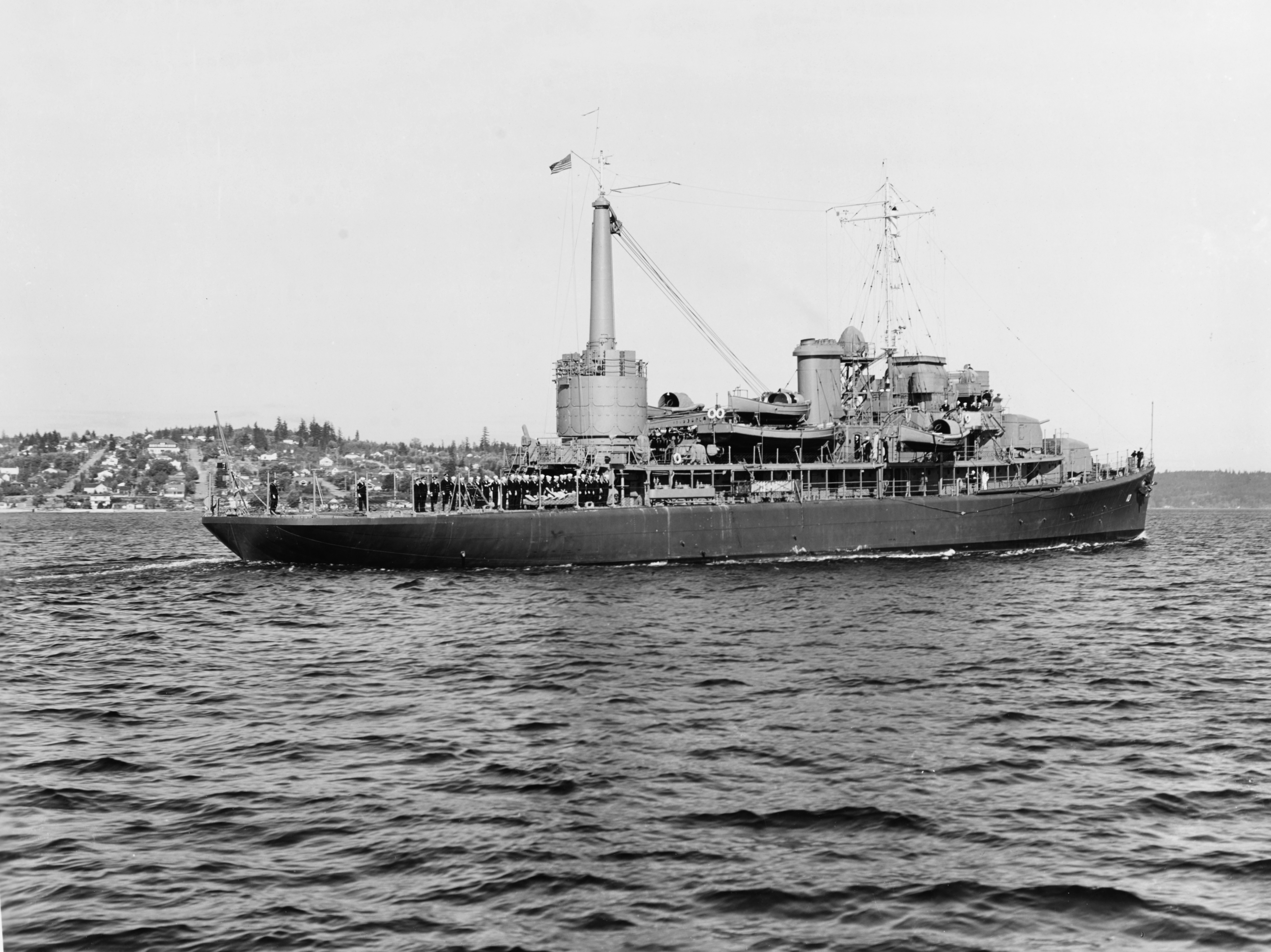 The U.S. Navy small seaplane tender USS Barnegat (AVP-10) underway in Puget Sound, Washington (USA), on 14 October 1941. She is displaying her original seaplane-handling facilities, including a large crane aft and a clear fantail. The ship is painted in Camouflage Measure 1. Photograph from the Bureau of Ships Collection in the U.S. National Archives.